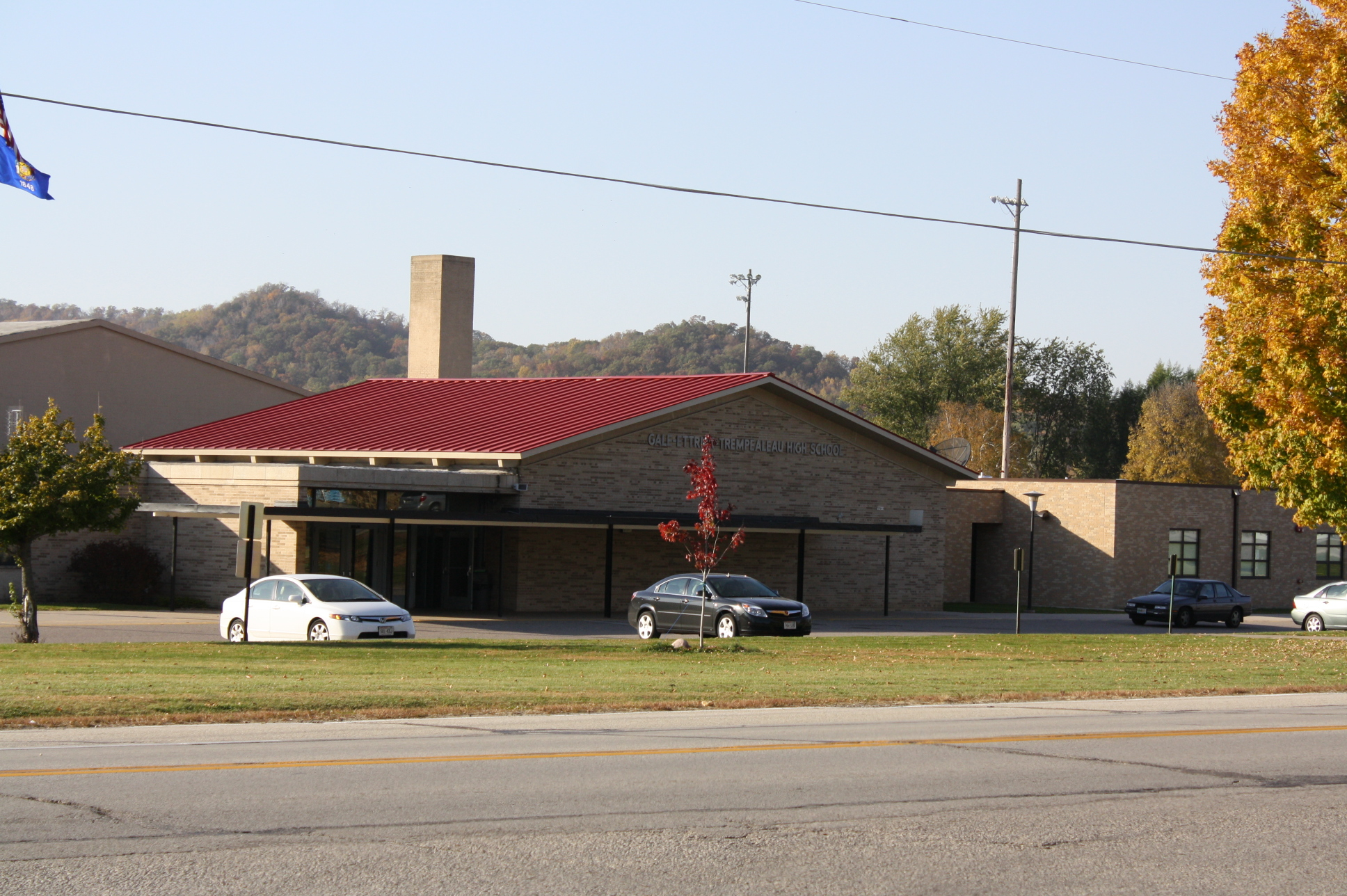 The Gale-Ettick-Trempealeau High School in Galesville, Wisconsin on U.S. Route 53 53.